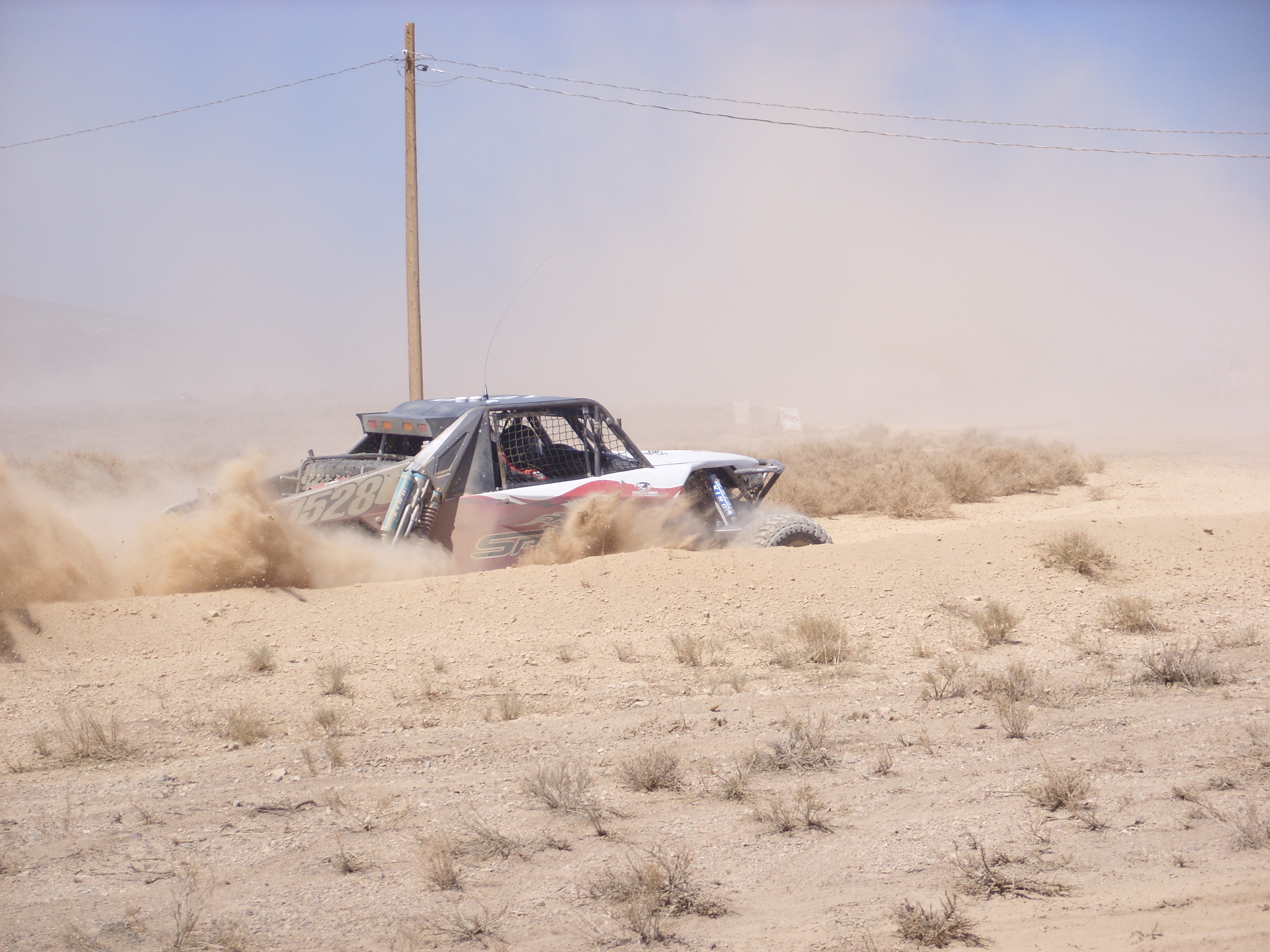 The #1528 Class 1 Speed Technologies buggy blows through the Cotton Tail pit at the 2008 Vegas to Reno. Boy Scout Venture Crew 35 is going to rebuild a Ford Ranger to race in SCORE's Baja 1000 and Best In The Desert's (BITD) Vegas to Reno. Check out the project at